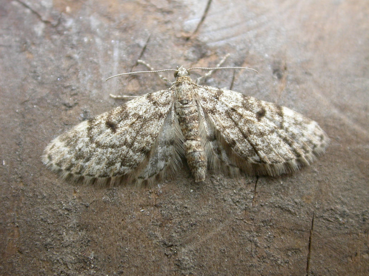 Eupithecia tantillaria, to MV light, Hellerup, Denmark, 18 May 2003